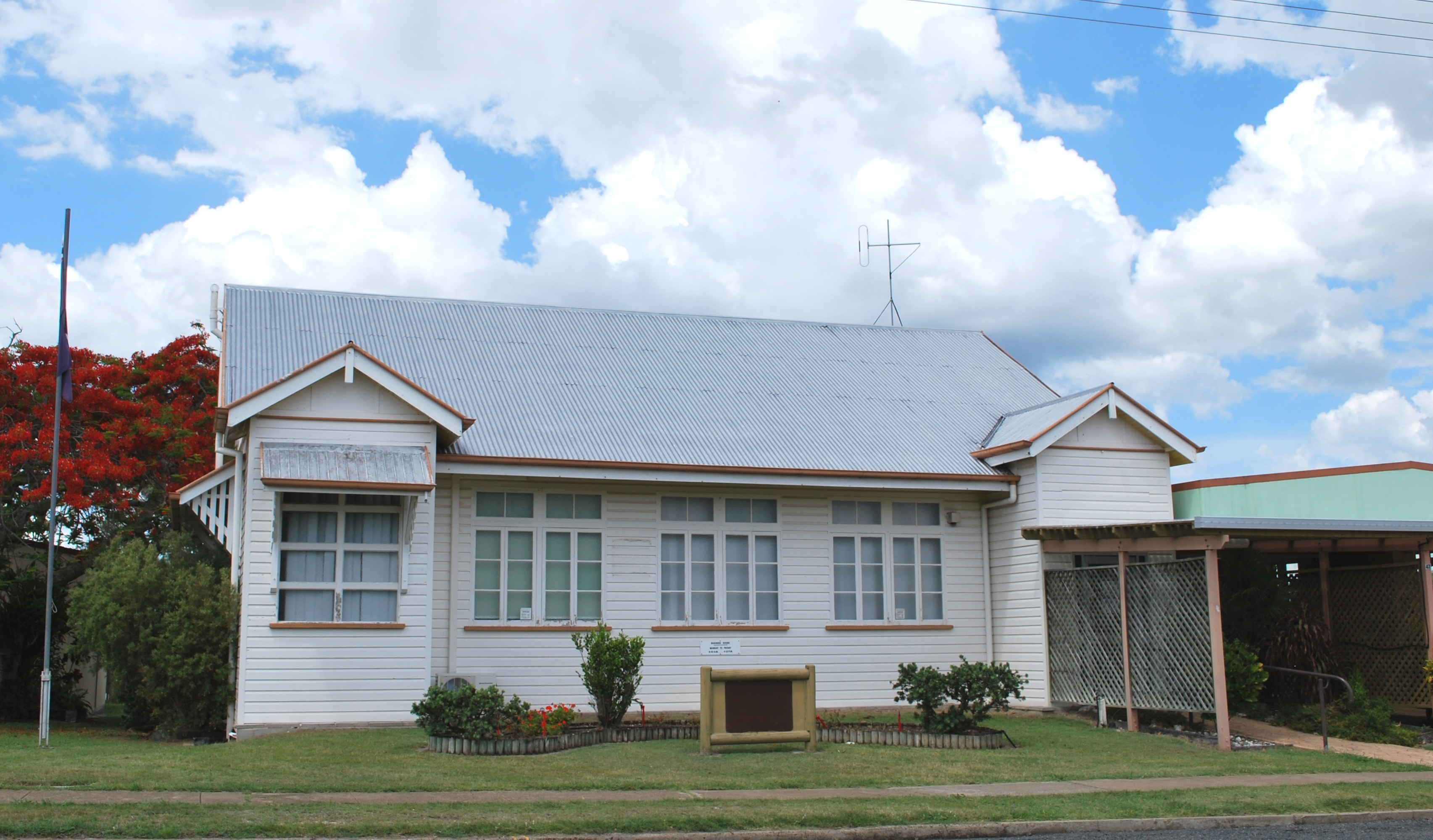 Offices of the former Shire of Biggenden in Biggenden, Queensland